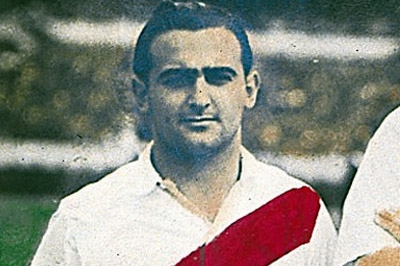 Norberto Yácono while playing for River Plate